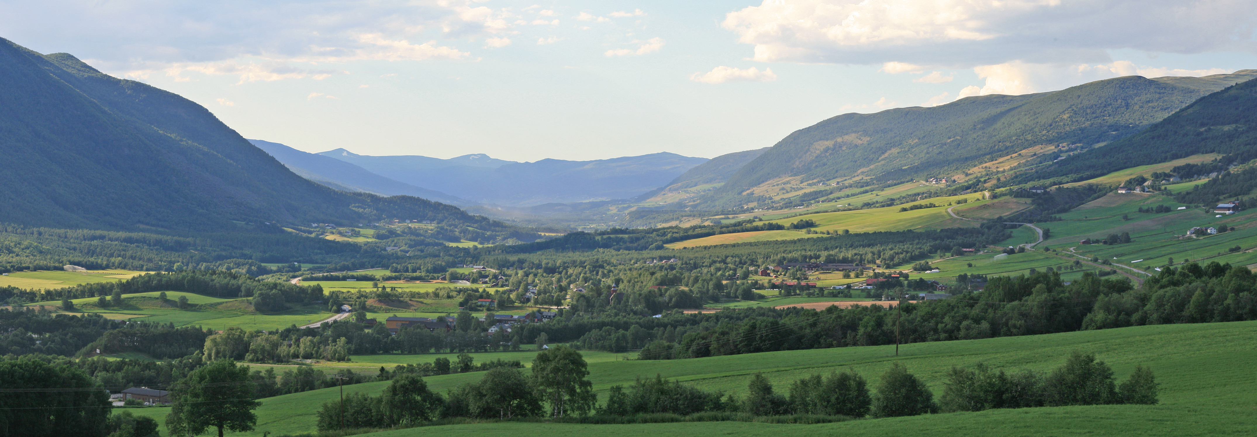 Dovre, Oppland, Norway. Looking north from south of municipal centre.